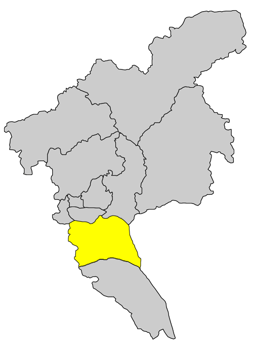 Location of Panyu District, Guangzhou